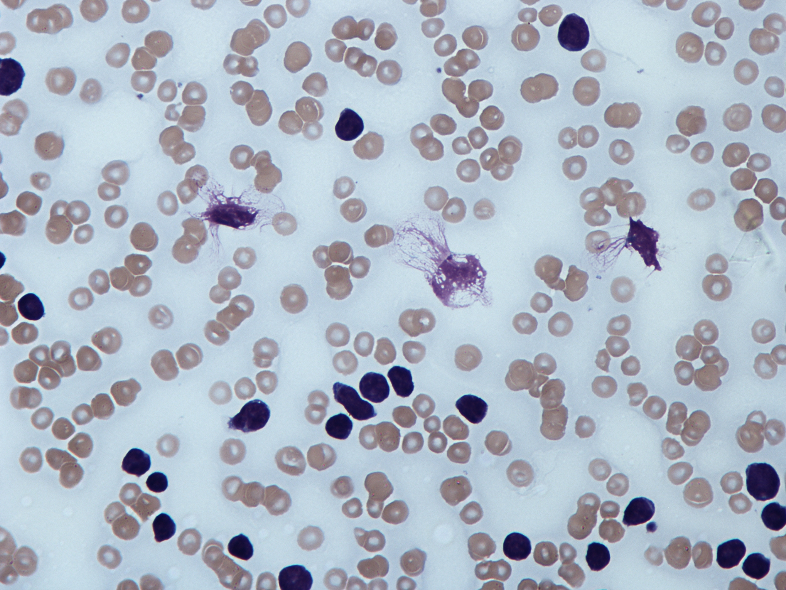 Micrograph of blood from a case of lymphocytic leukaemia showing smear cells (Giemsa stain)